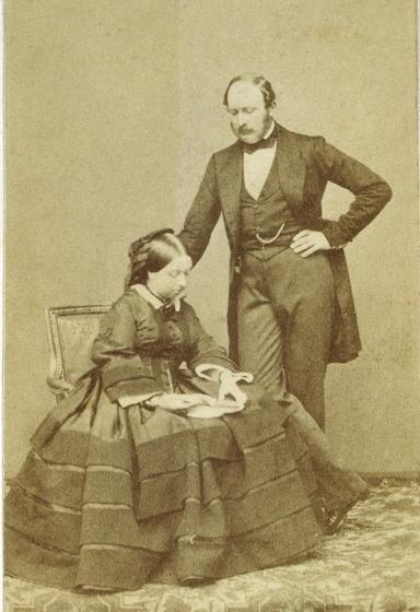 Victoria and Albert, the Prince Consort, 1861, John Jabez Edwin Mayall V&A Museum no. 3505-1953 Techniques - Hand-coloured albumen print from wet collodion on glass negative Place London, England Dimensions - Height 10 cm (unmounted) Width 7 cm (unmounted) Object Type - A miniature photographic portrait such as this example, is called a 'carte de visite' (the French for 'visiting card'). This was a photographic format, originating from the visiting card, which was introduced in France in 1854. These 'cartes, were mass produced, and those like Mayall's pictures of the royal couple were ordered by the hundreds of thousands. People - In March, 1861, John J.E. Mayall was entrusted with the important royal commission of photographing Queen Victoria and Albert, the Prince Consort. Albert's death, only nine months after this photograph was taken, created an unprecedented public demand for 'carte de visite' portraits of the royal family. By purchasing such images the public demonstrated its sympathy and shared in a form of public mourning. Collecting - It was fashionable to collect 'cartes de visite' and compile them in albums. Queen Victoria shared her husband's enthusiasm for photography and had over 100 albums in which she collected portraits from every foreign court.